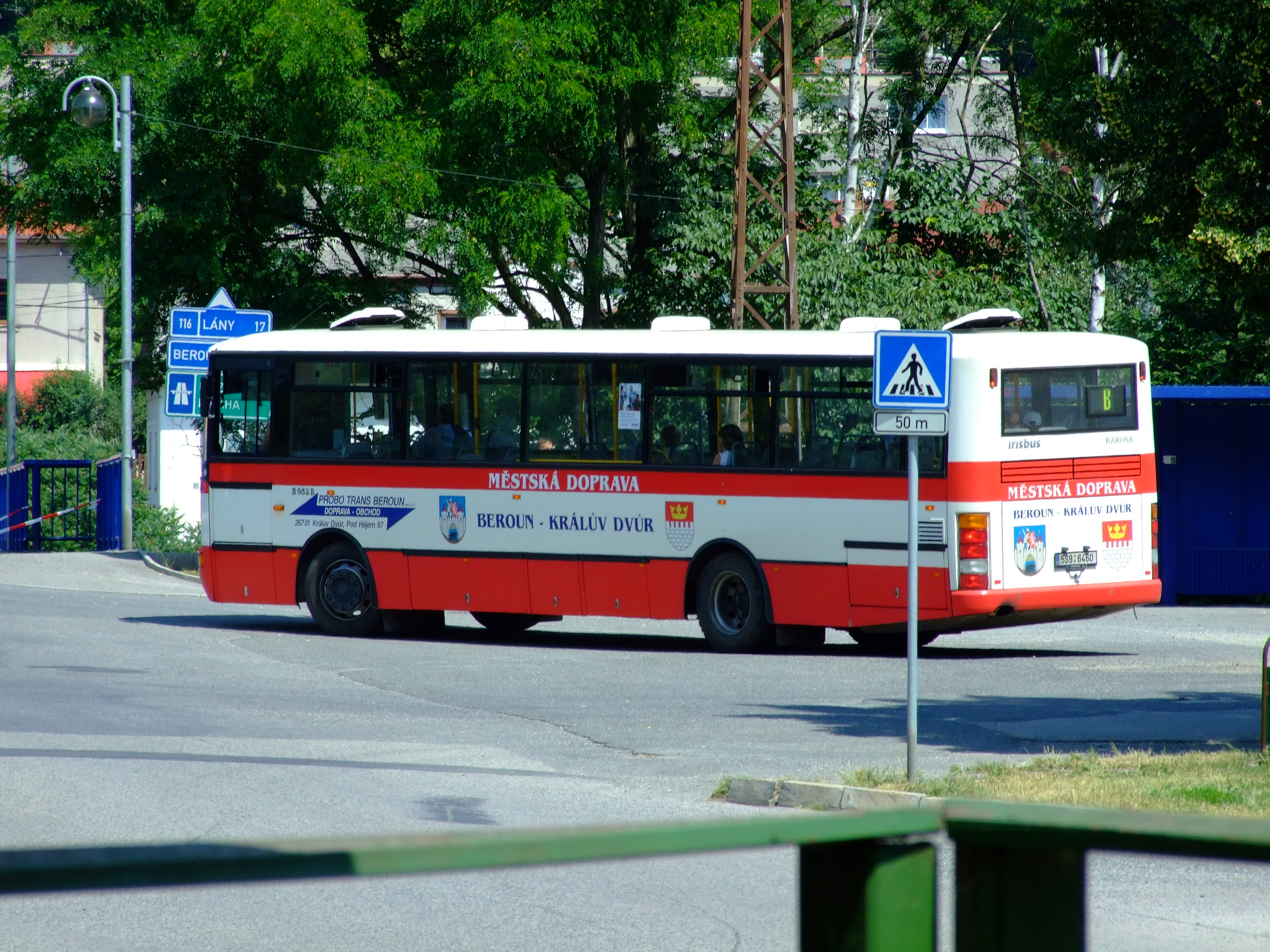 Beroun public transport bus Karosa B 952 in Nižbor, CZ